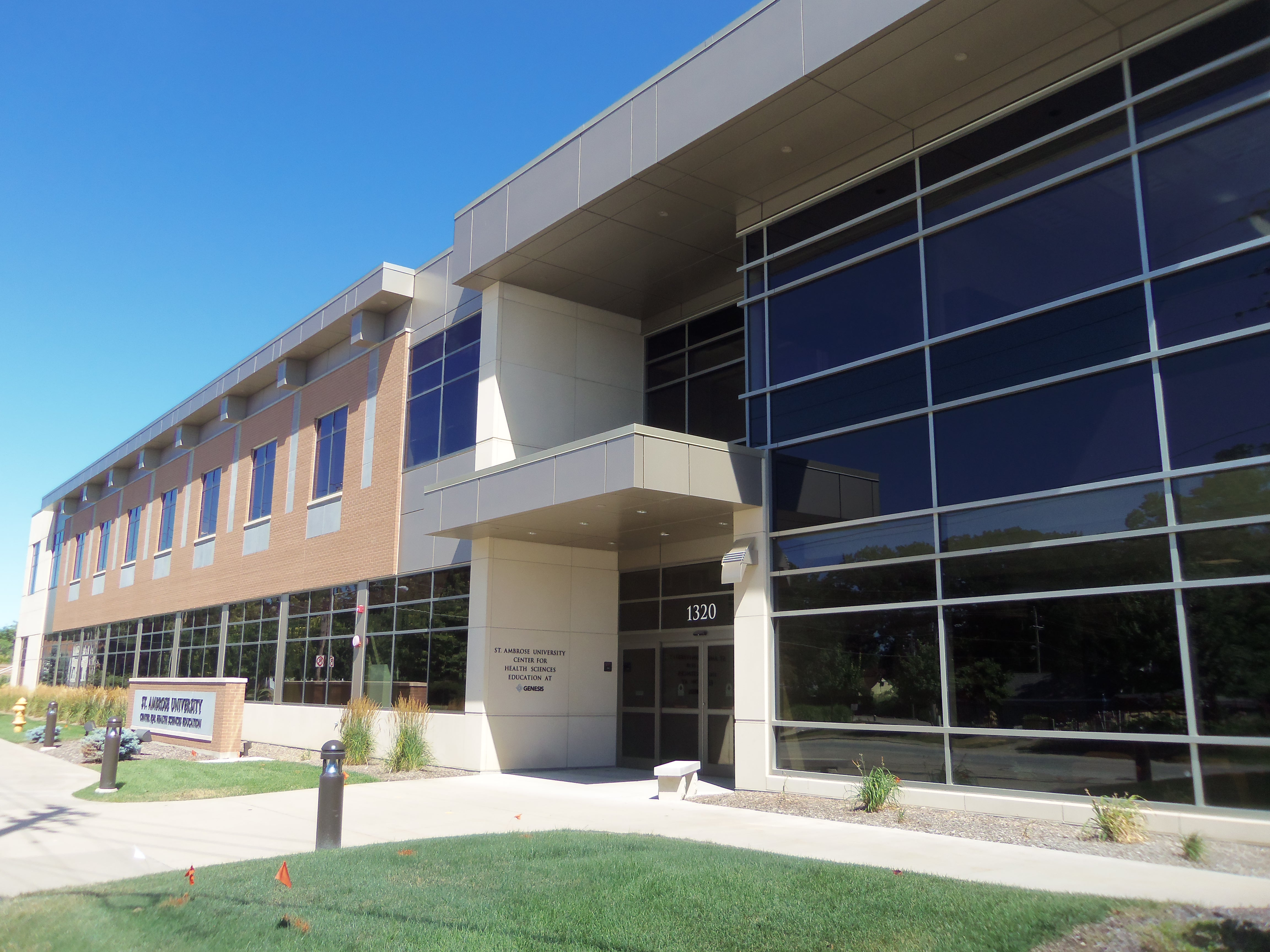 Health Sciences Education Center at St. Ambrose University in Davenport, Iowa.